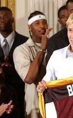 Carmelo Anthony, former college basketball player for the Syracuse Orange. Was a member of Syracuse's 2003 NCAA National Championship team.